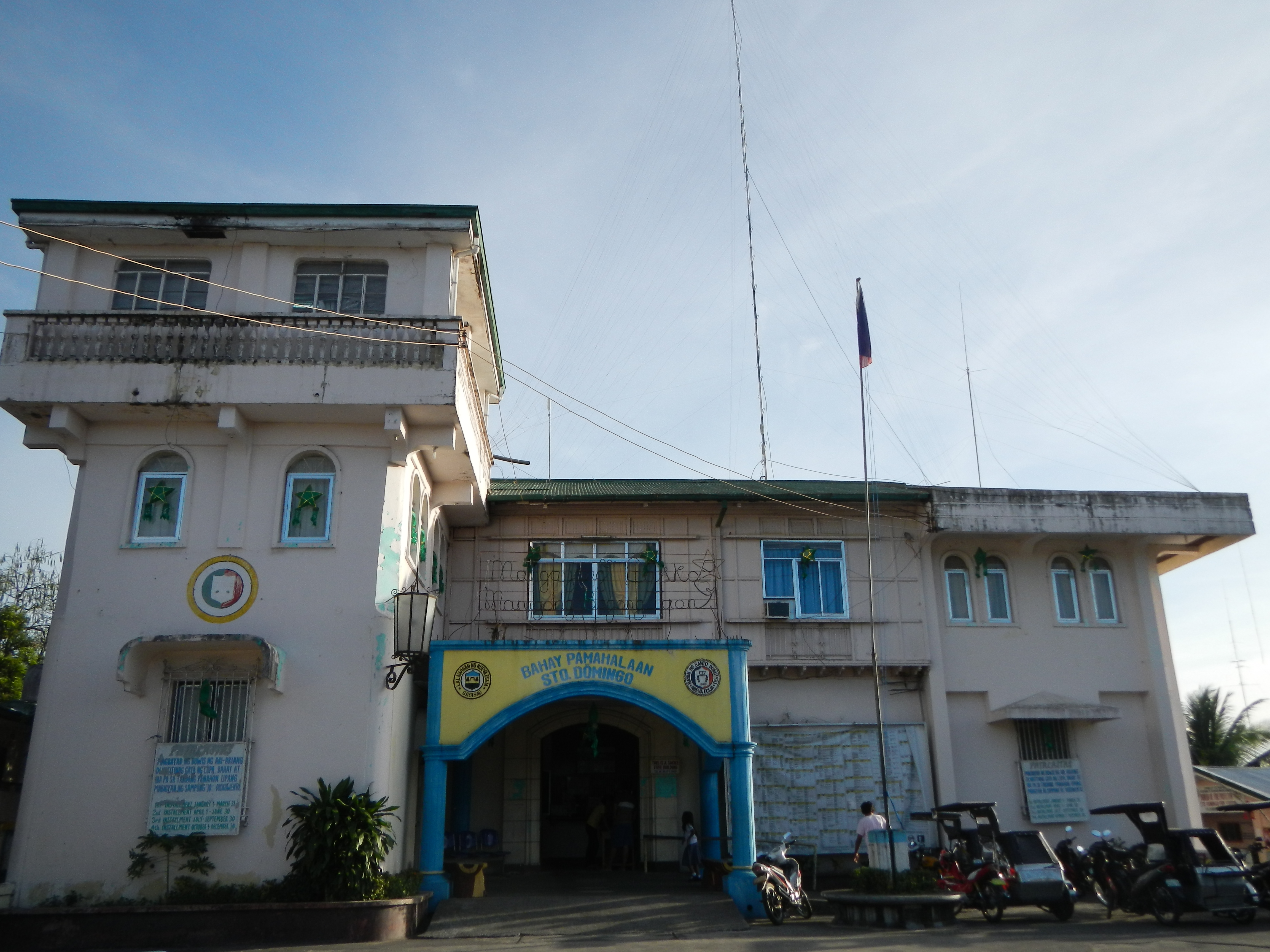 Santo Domingo, Nueva Ecija[1][2]